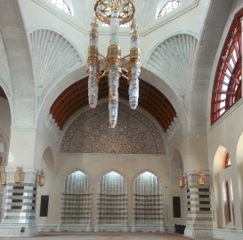 جامع محمد الأمين من الداخل